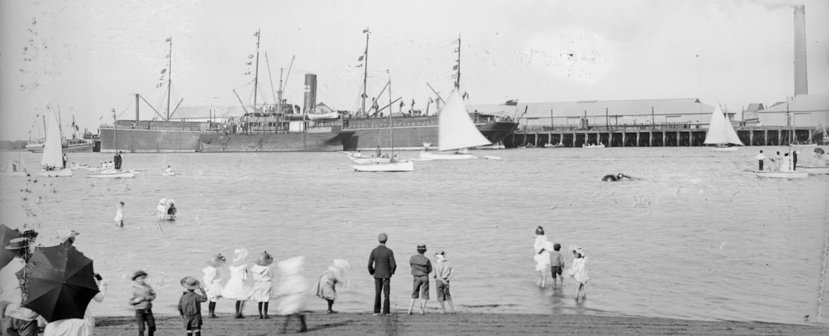 Port Adelaide's wharves in 1901. Notable due to the design of the Port Adelaide Football Club guernsey reflecting the pylons of the dock.